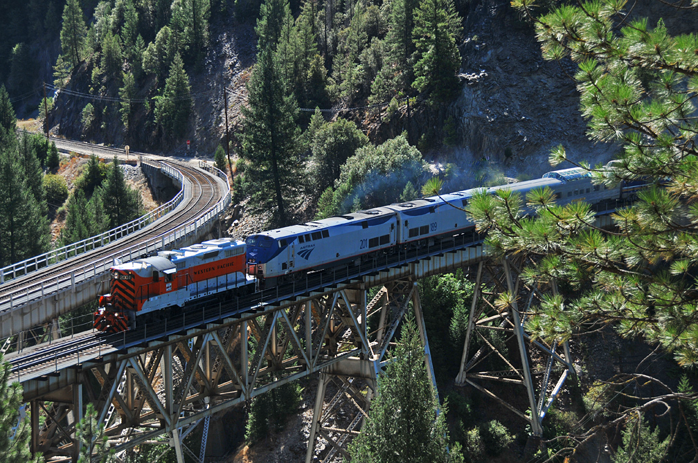 Feather River 129xRP